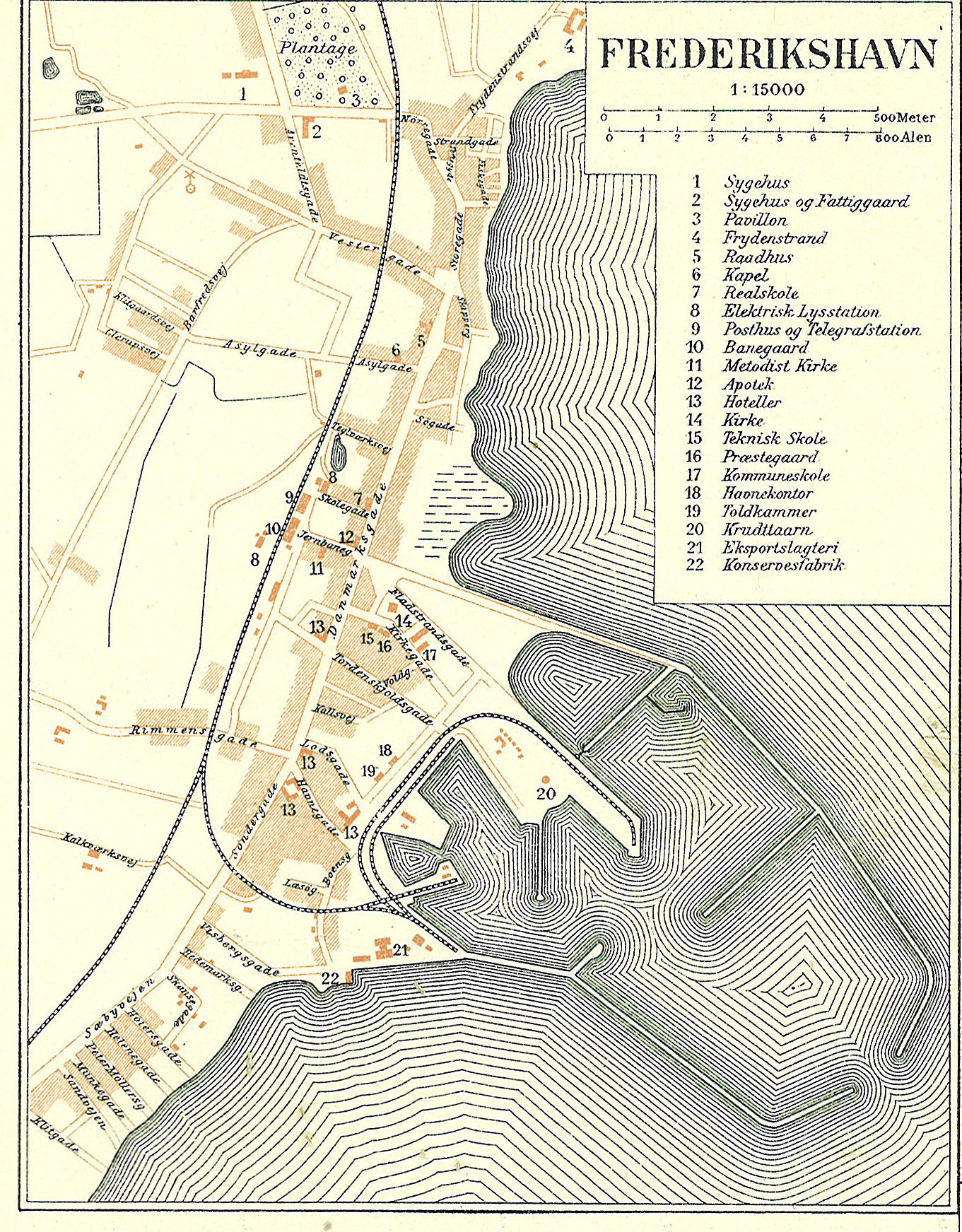 Frederikshavn from Map of Hjørring- and Aalborg Countys III in Denmark